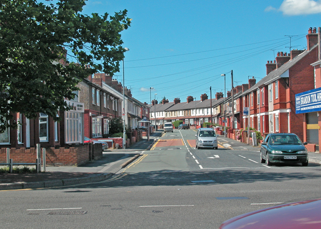 Princes Road